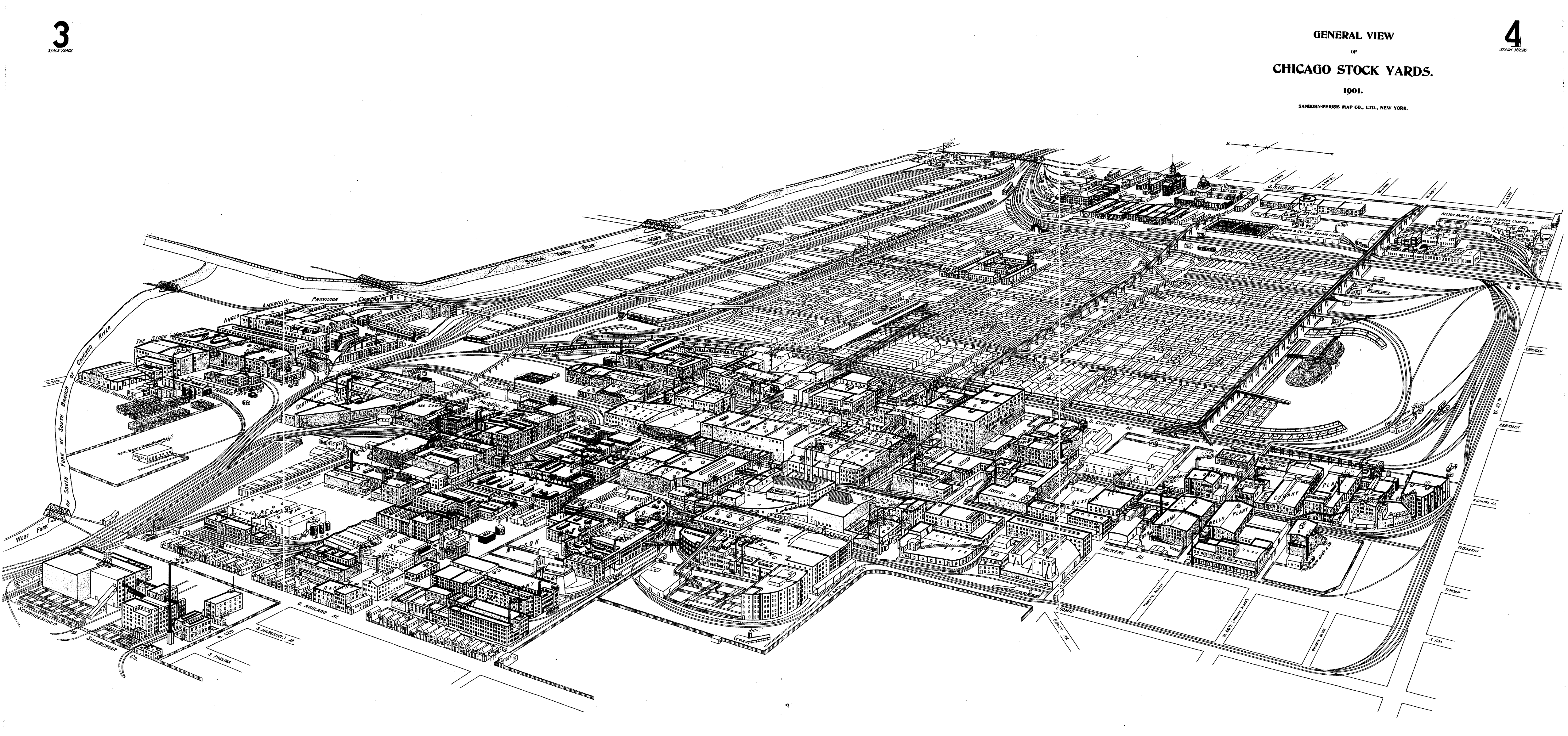 "Chicago Packing Houses and Union Stock Yards"; combined version of sheets 3 and 4, comprising the general view. Library of Congress copyright deposit entry dated September 30, 1901. This image was constructed from exact photographic copies of the original images.